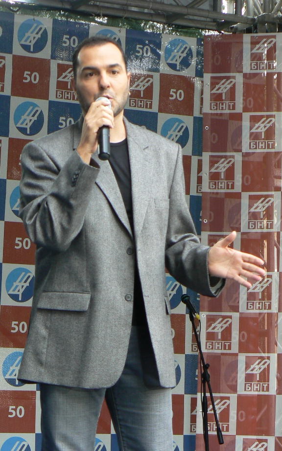 Bulgarian singer and TV journalist Dragomir Draganov